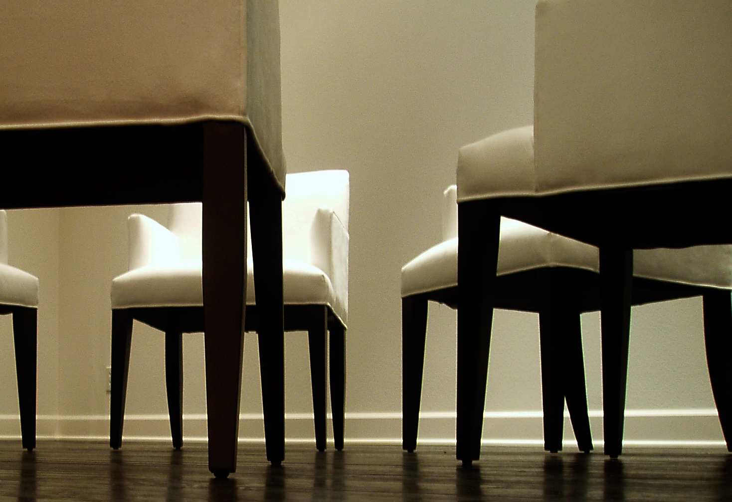 worm's-eye view: chairs